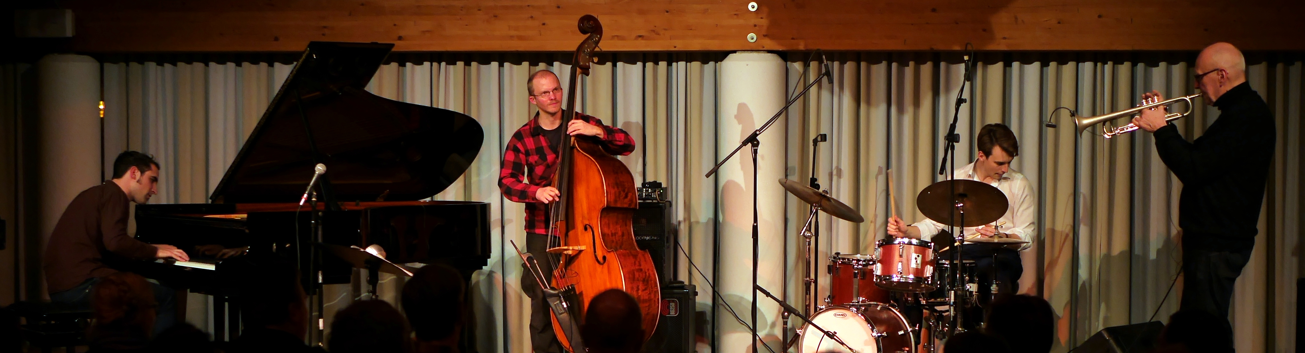 Uli Beckerhoff Quartet (Uli Beckerhoff (trp/flh), Richard Brenner (p), Moritz Götzen (b), Niklas Walter (dr) at the 19.Jazz Festival in Stuhr, Germany